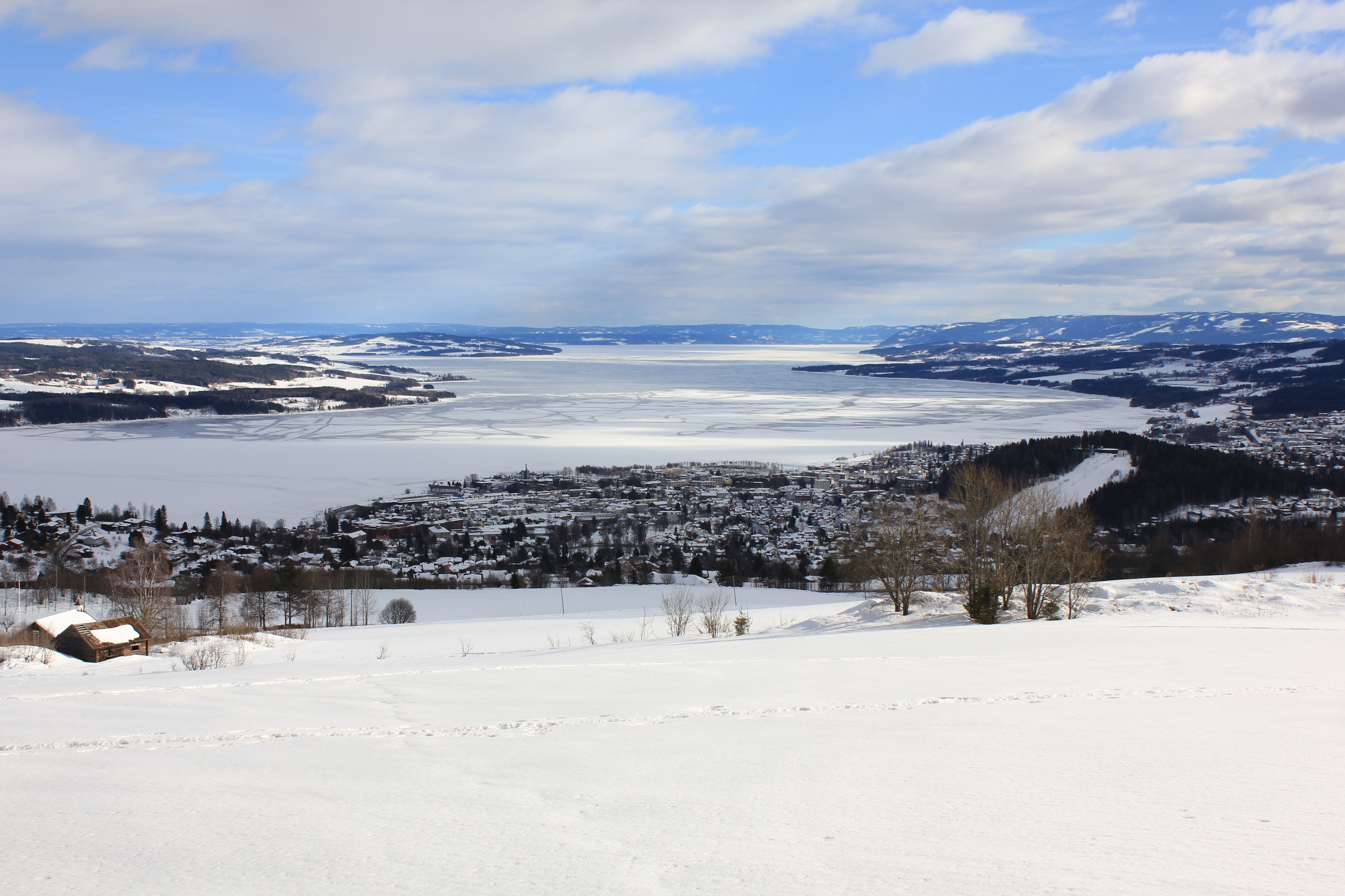 Lake Mjøsa covered with ice. The small town Gjøvik in the foreground. Lake Mjøsa is the largest lake of Norway and the fourth deepest in Europe.